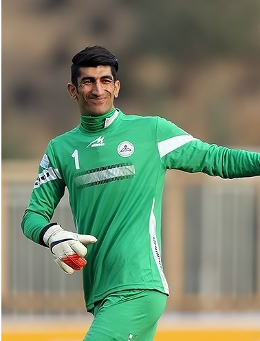 Alireza Beiranvand